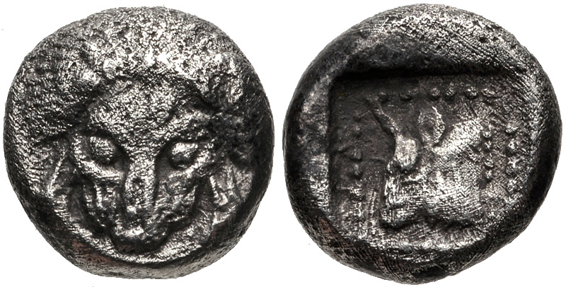 ISLANDS off IONIA, Samos. Circa 500-494 BC